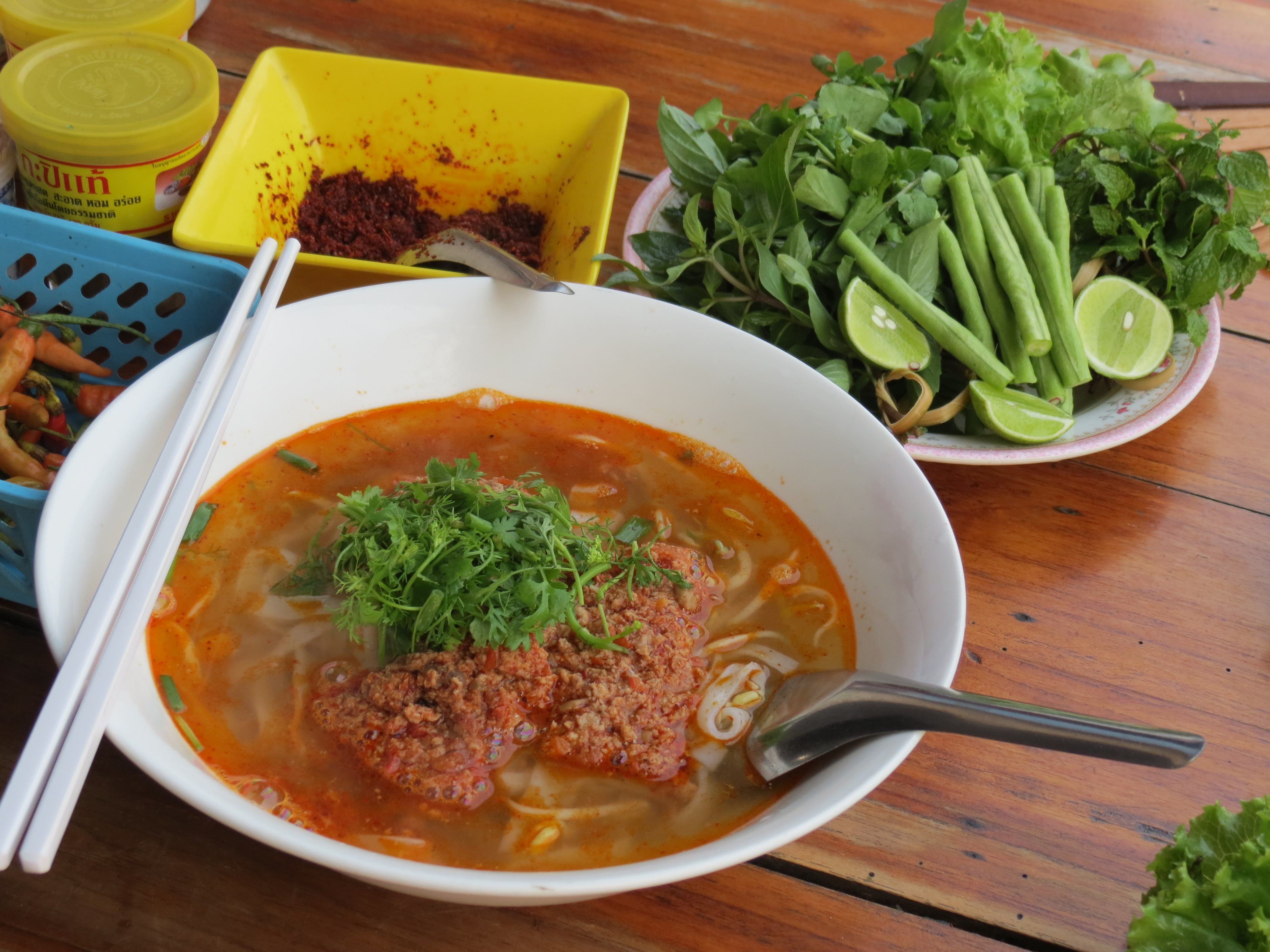 Khao soi, Lao-style, served with vegetables and seasonings as accompaniment, from a street vendor in Luang Prabang.